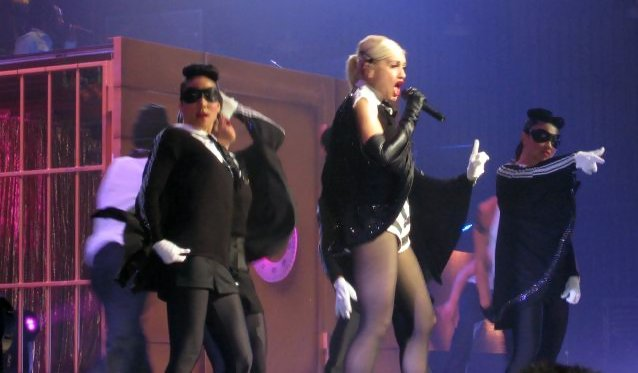 Gwen Stefani performing "Rich Girl" at the Verizon Wireless Amphitheatre in Charlotte, North Carolina, United StatesIMG_5359